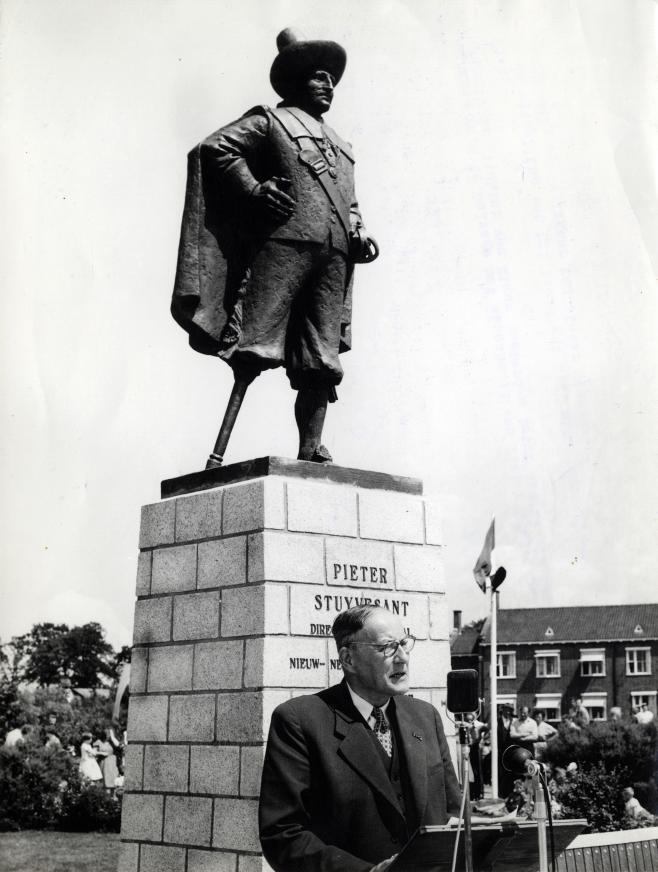 Minister W.J.A. Kernkamp making a speech after the unveiling of the statue of Peter Stuyvesant in Wolvega